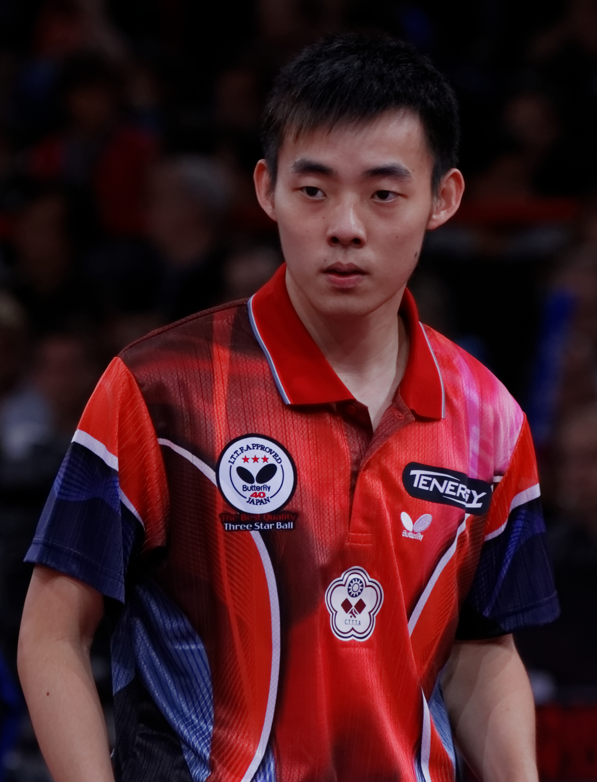 2013 World Table Tennis Championships, Paris. Men's Doubles Semifinals. Wang Liqin - Zhou Yu vs Chen Chien-an - Chuan Chih-yuan.